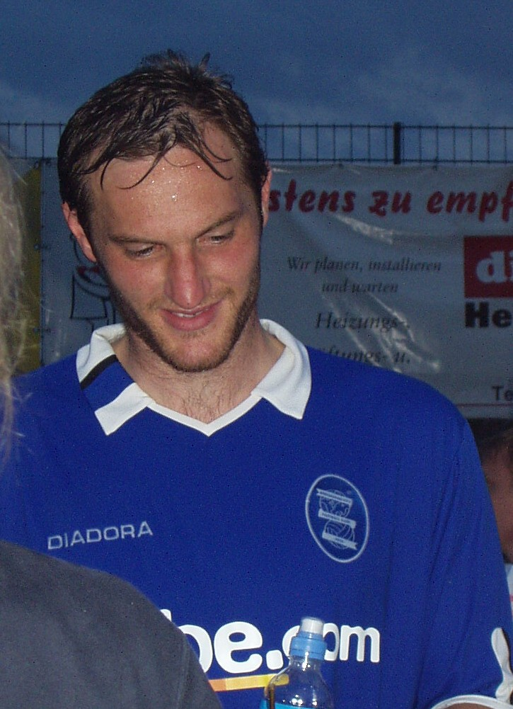 Football (soccer) defender Martin Taylor of Birmingham City F.C. signs autographs after pre-season friendly match VfB Poessneck (Germany) v Birmingham City FC